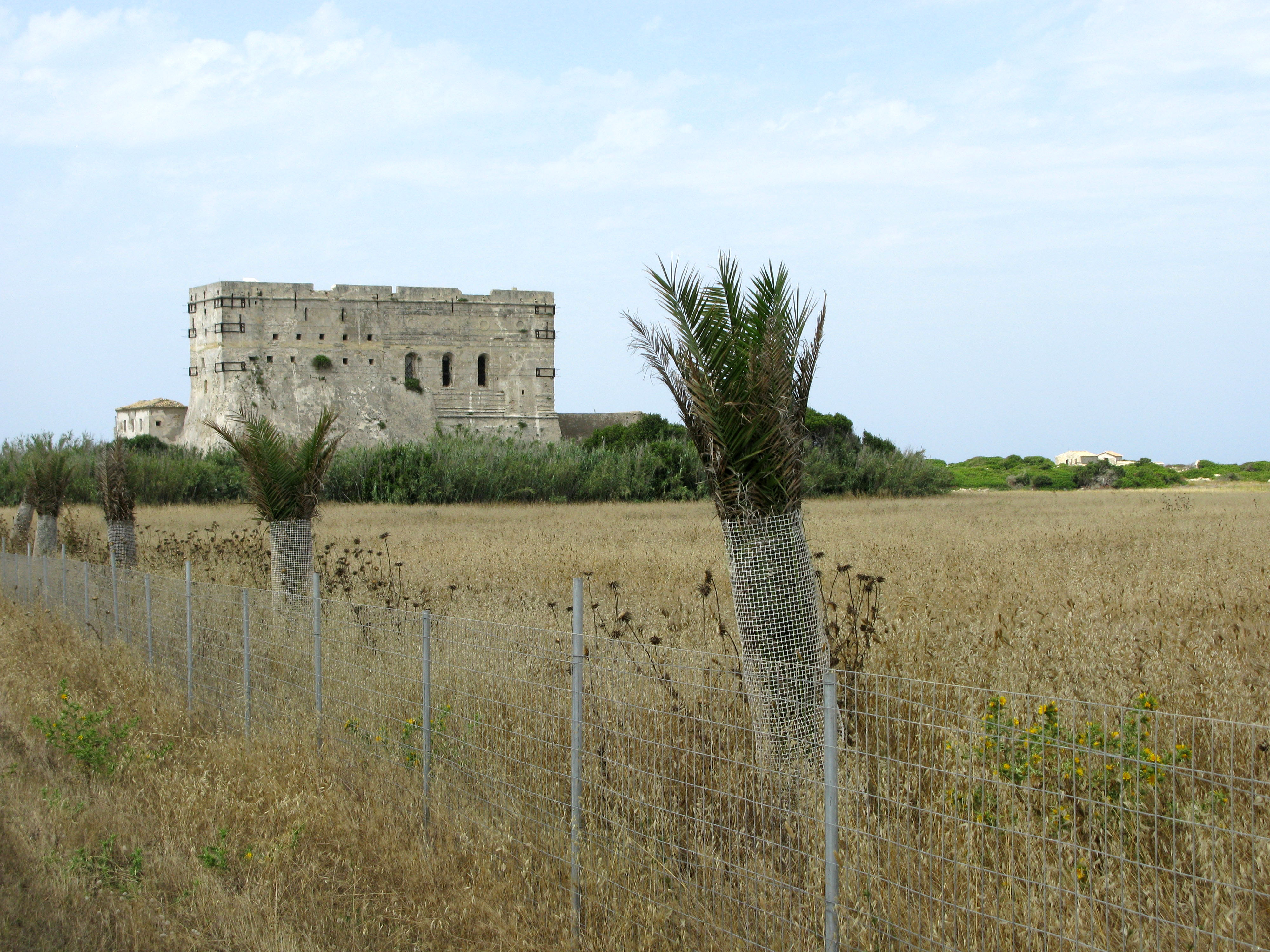 A picture of the old monastery on Strofades island, looking north to the direction of Zakynthos.